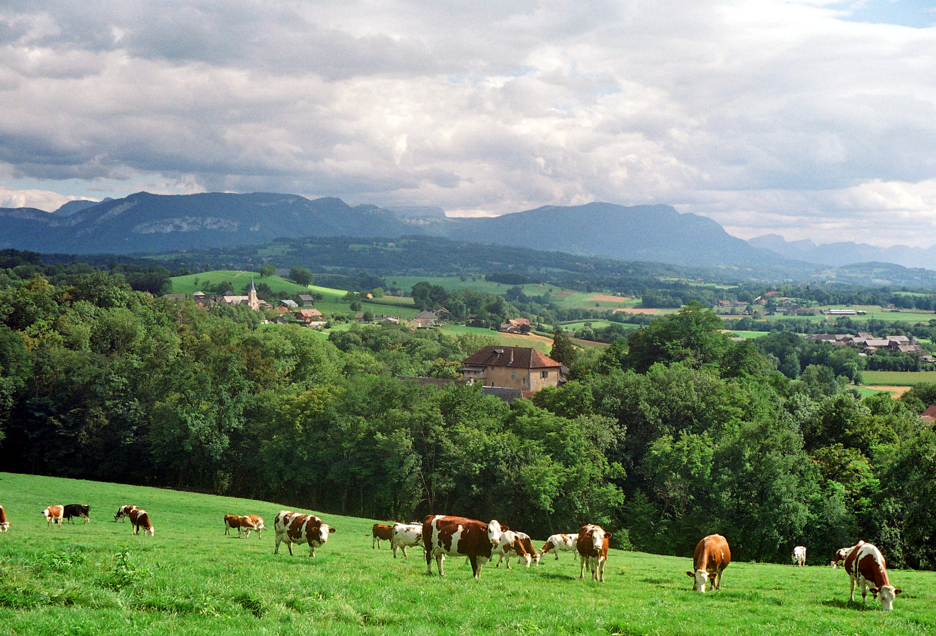 Boussy village (Haute-Savoie, France) seen from Contentenaz, August 2011. View snapped toward South with Bauges (left) and Chartreuse (right) mountains in background and Mieudry castle in foreground.